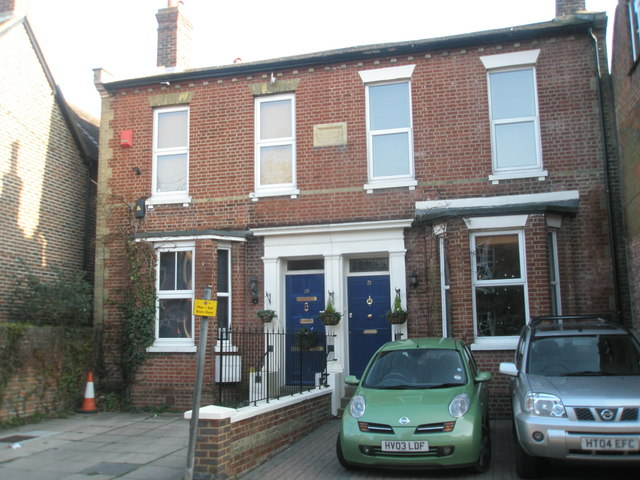 David Willetts Constituency Offices The local MP, amongst other things, receives his constituents here.